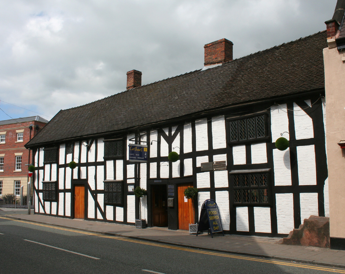 Curshaws, 26-30 Welsh Row, Nantwich, Cheshire. Formerly Wilbraham's Almshouses for widows & later the Cheshire Cat public house.